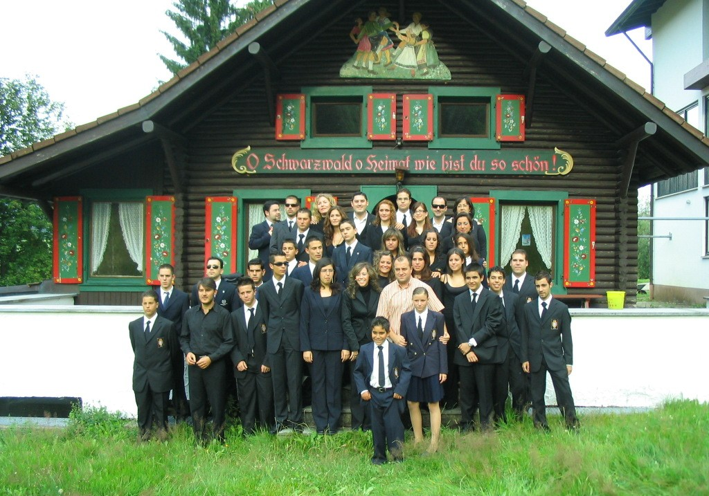 Symphonic band.